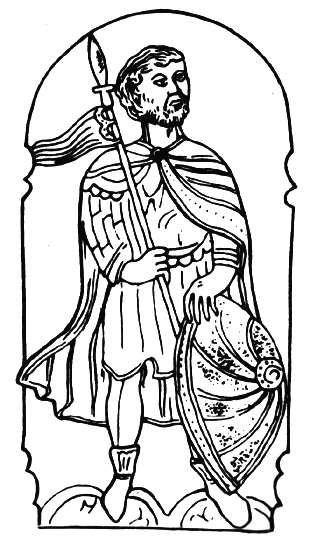 Repainting of Lavrishevsk Gospel (13th C.) cover, probably made in Valhyn to Vojshalk's order. Shows Dmirty Salunsky, which is Vojshalk, according to Vaclau Lastouski.